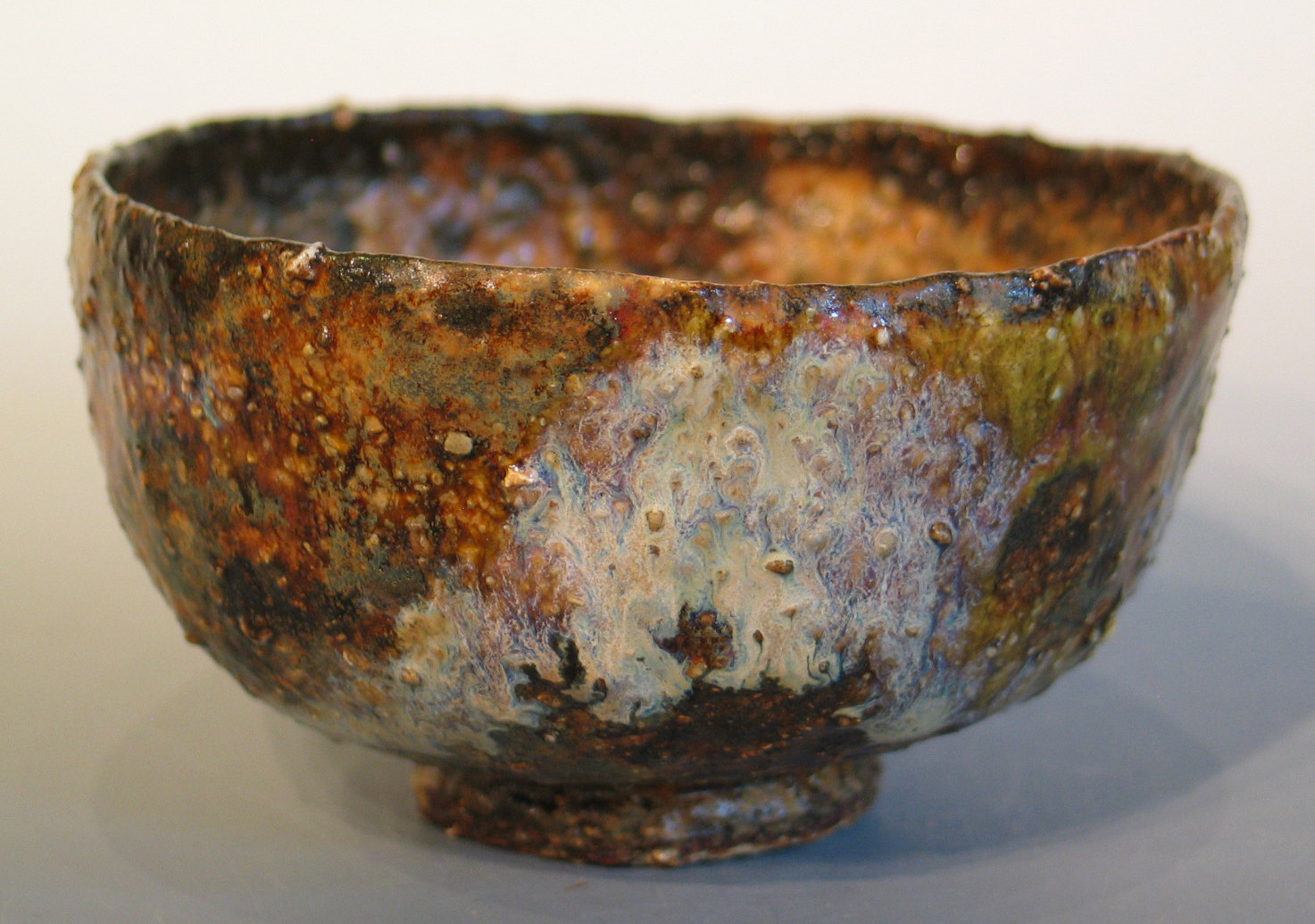 Nelygios formos, atspindinčios Vabi Sabi idėjas